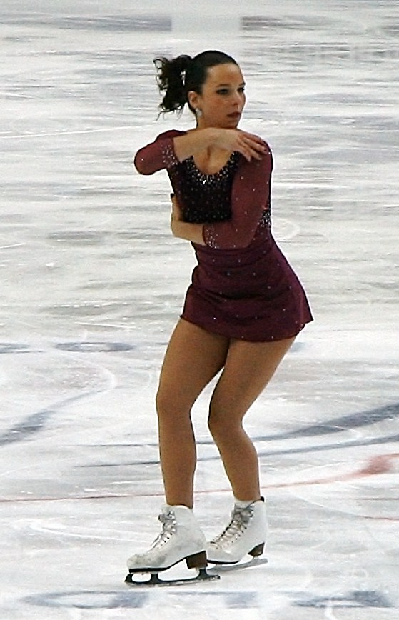 Roberta Rodeghiero at the 2011 World Figure Skating Championships